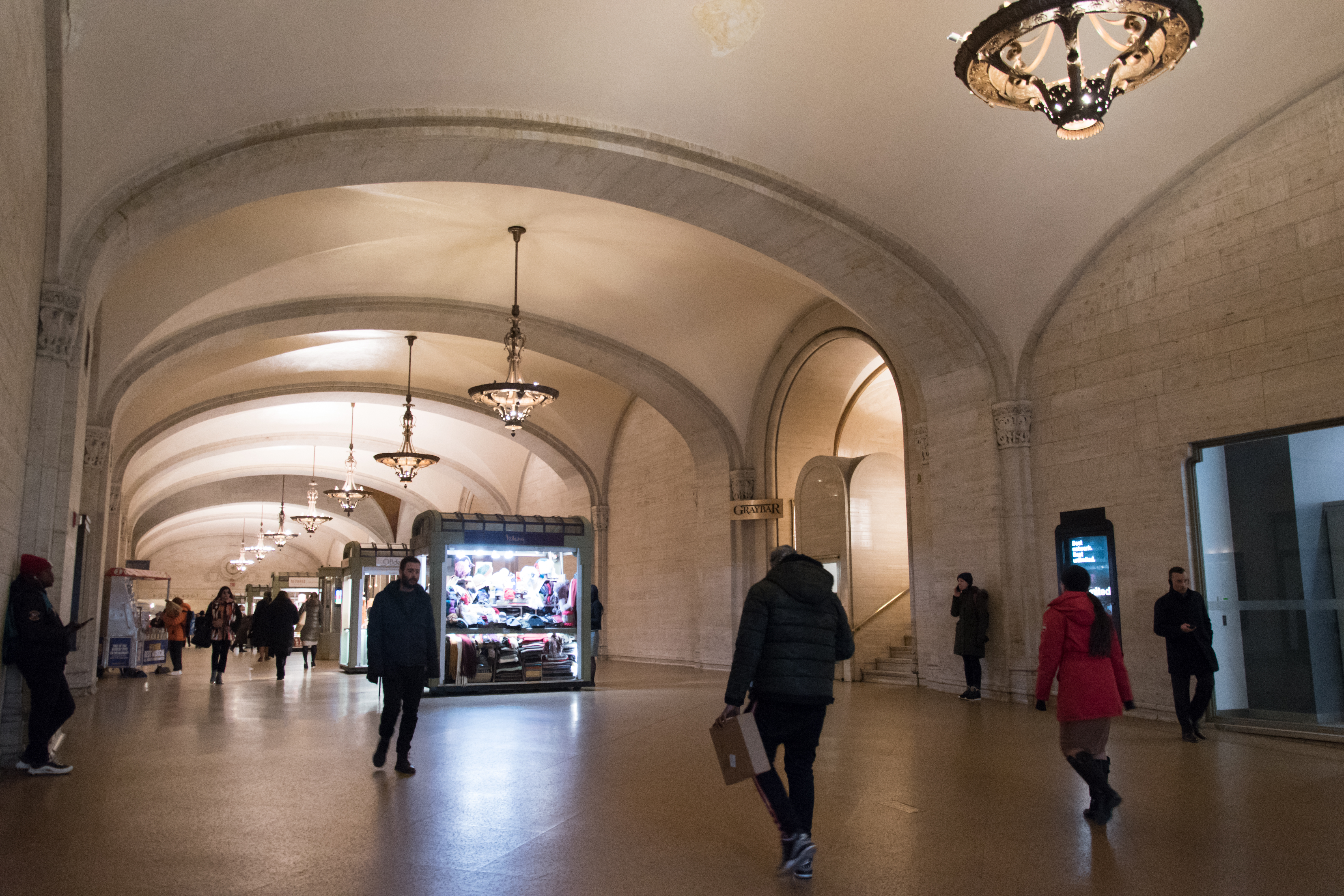 Graybar Passage in New York City's Grand Central Terminal in 2019. Taken as part of a scheduled photoshoot with three other Wikipedians on January 7, 2019.